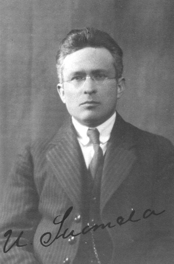 Photograph of the Finnish writer Klaus Uuno Suomela (1888–1962).